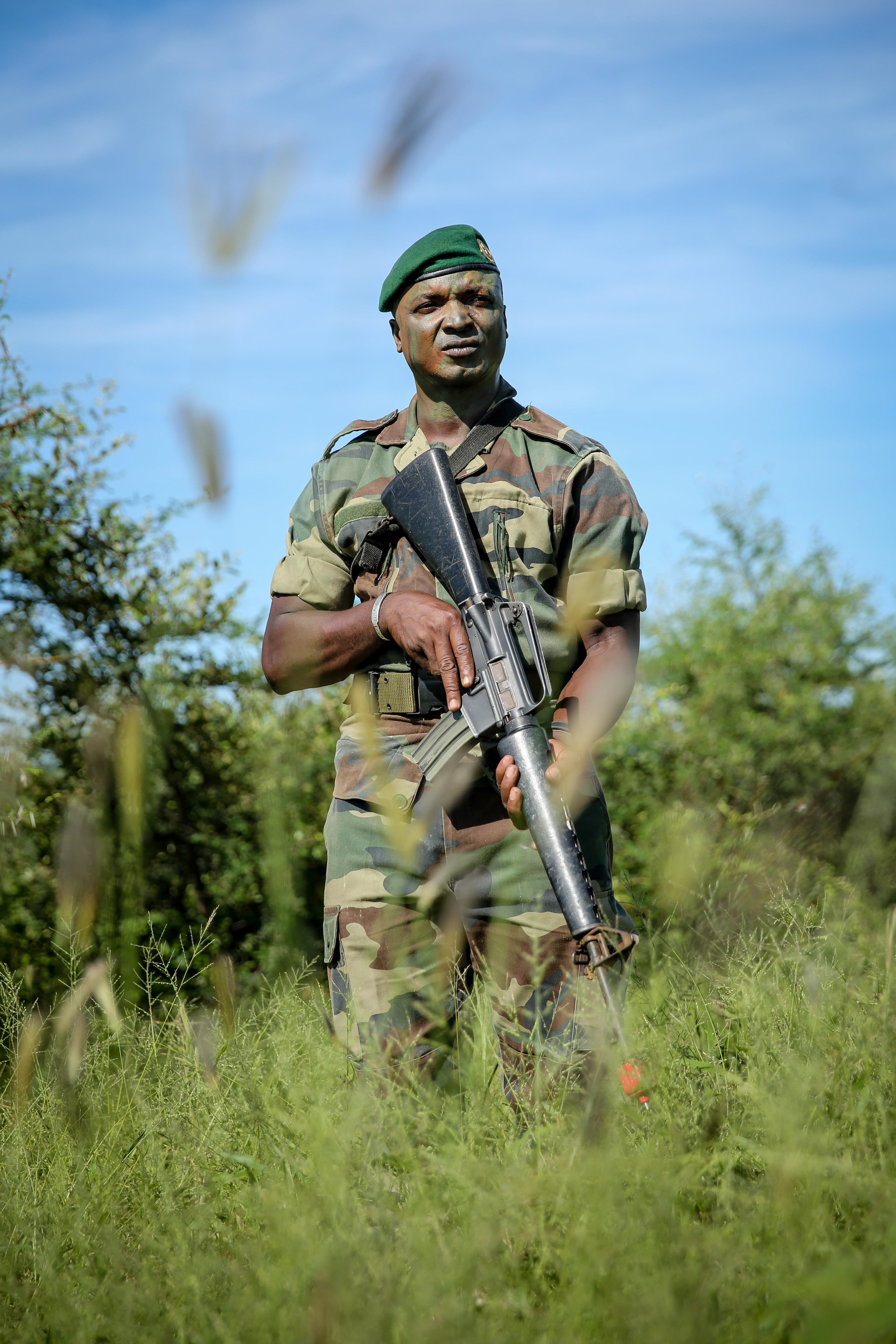 A Senegalese service member conducts a patrol during an ambush exercise as part of Africa Partnership Station (APS) 2013 in Thies, Senegal, Sept. 16, 2013. APS is an international security cooperation initiative facilitated by Commander, U.S. Naval Forces Europe-Africa aimed at strengthening global maritime partnerships through training and collaborative activities in order to improve maritime safety and security in Africa.